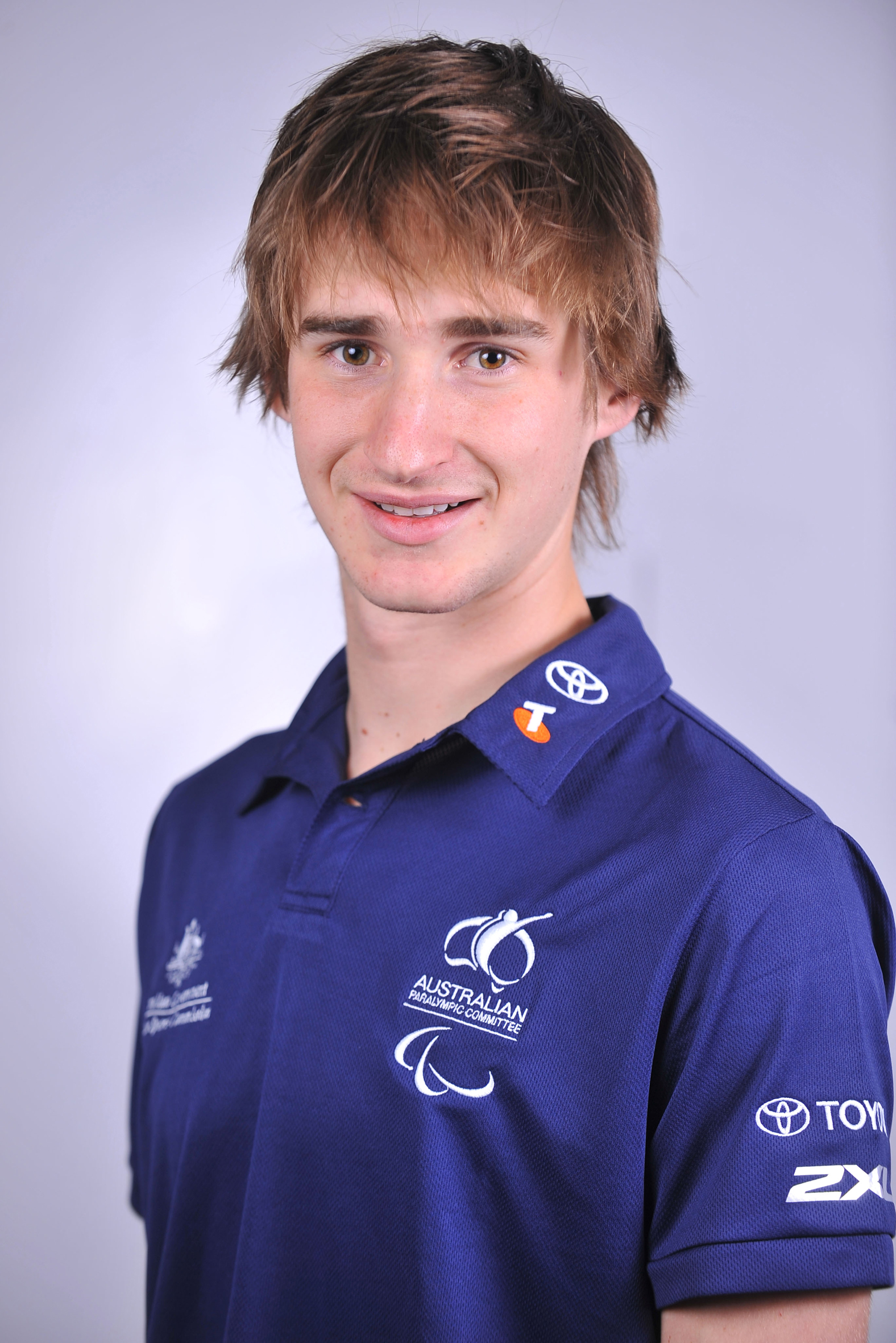 Portrait of Australian athlete Sam Harding, 2012 Australian Paralympic (shadow) Team athlete